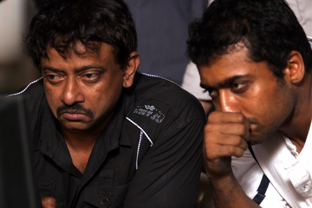 Suriya is discussing scene with the Director of the movie Rakht Charitra.